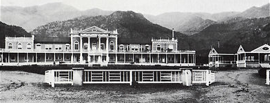 replacement casino with added wings after the 1st burned. Administration building on right which had Broadmoor Dairy offices where dairy manager resided.